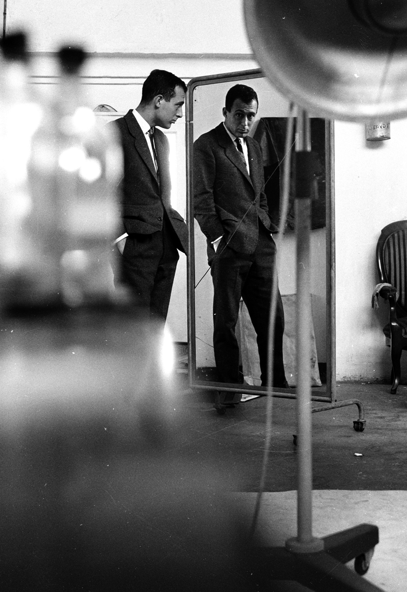 Xavier Miserachs Self Portrait